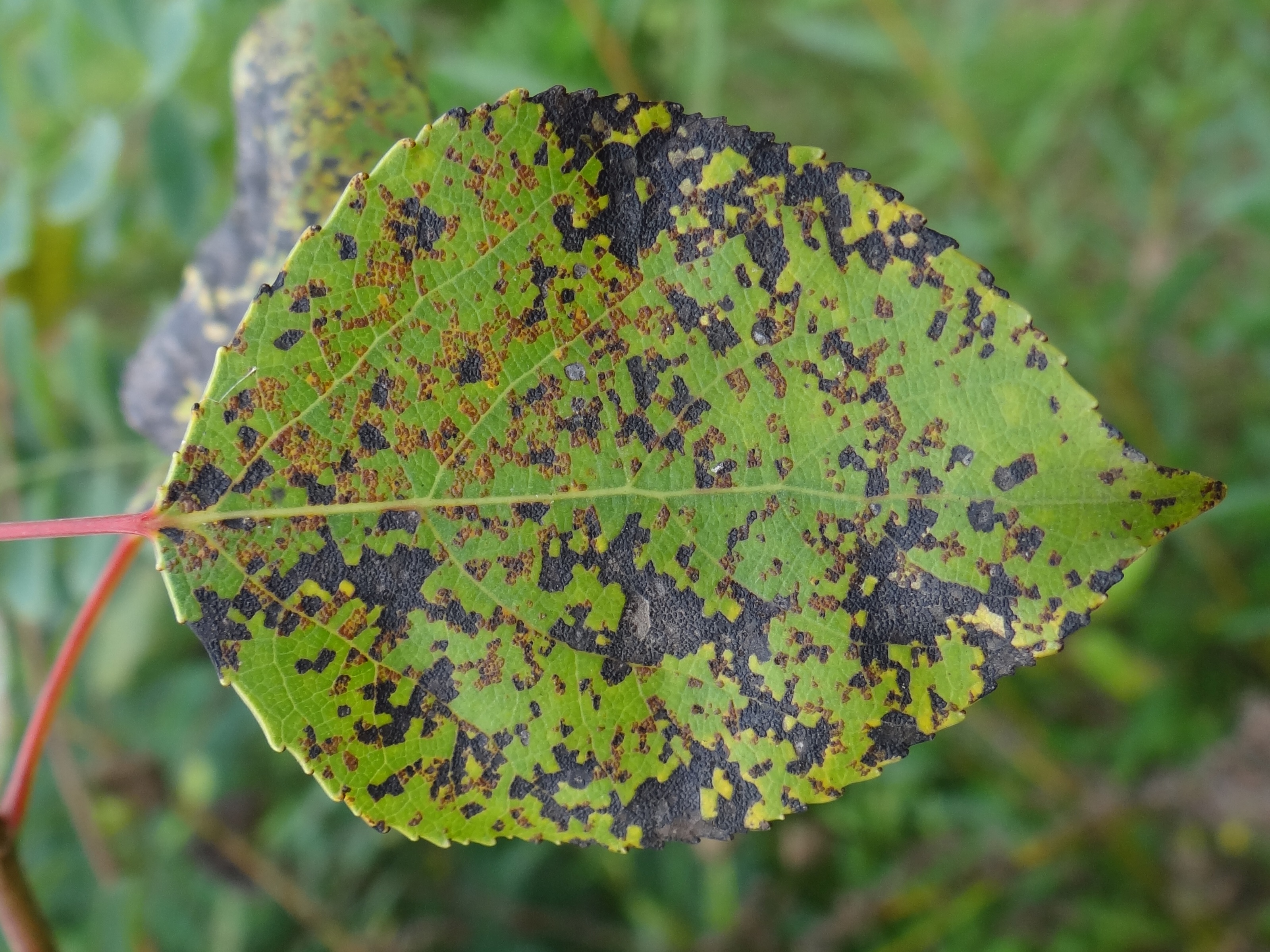 Drepanopeziza, probably D. punctiformis on Populus sp. Location: Poland, Łapanów